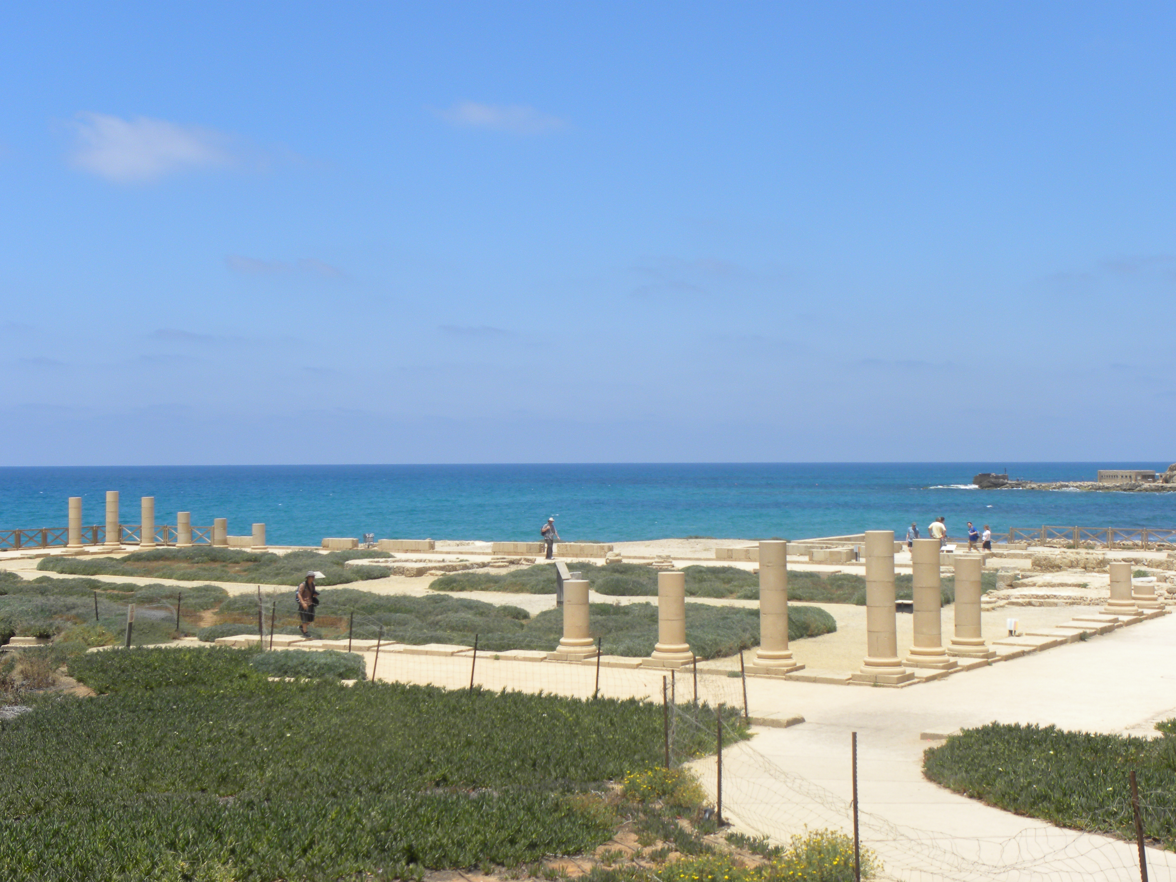 Outer portico of Herod the Great's sea-side palace at Caesarea Maritima. The columns supported a massive rectangular covered porch running around the open-air garden in the middle. The garden itself would have included paths for visitors to follow, appreciating the exotic plants nurtured there. The inner sections of the palace (reception areas, living quarters, etc.) lay to the West of this portico, off the left-hand edge of the picture, on a narrow spit of land jutting into the Mediterranean. After the Romans assumed direct rule of Palestine the palace was used by the Roman governor (Prefect or later Procurator). Herod's winter palaces, Jericho